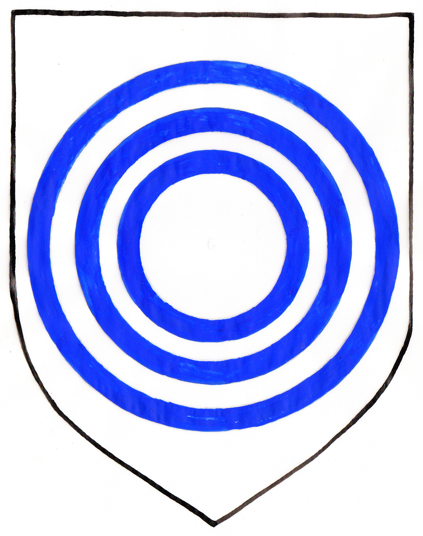 Armorial of Gorges, alternative version of gurges, approximated by 3 concentric annulets, as seen on tunic of knight at Tamerton Foliot Church, Devon.